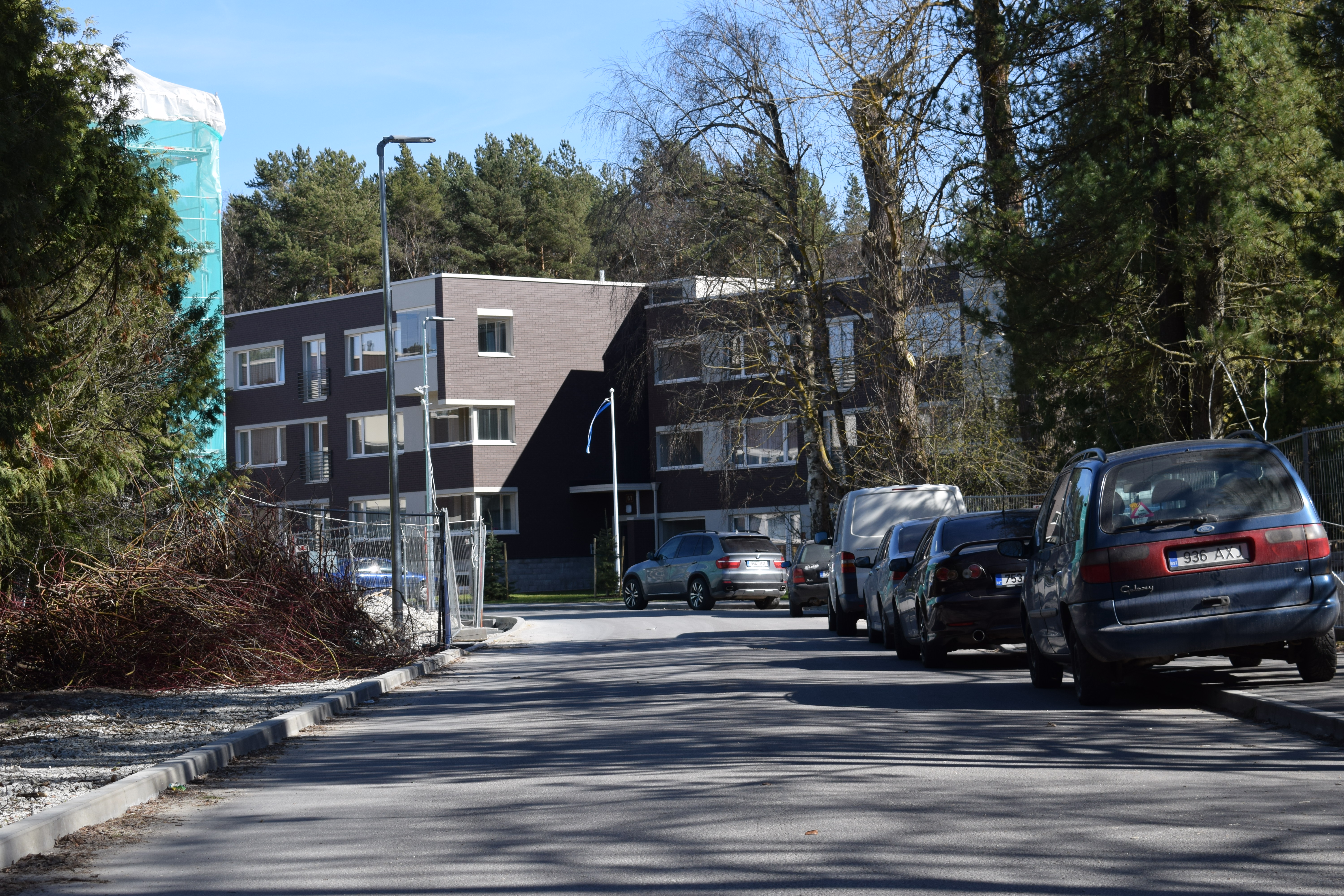 Vahulille street